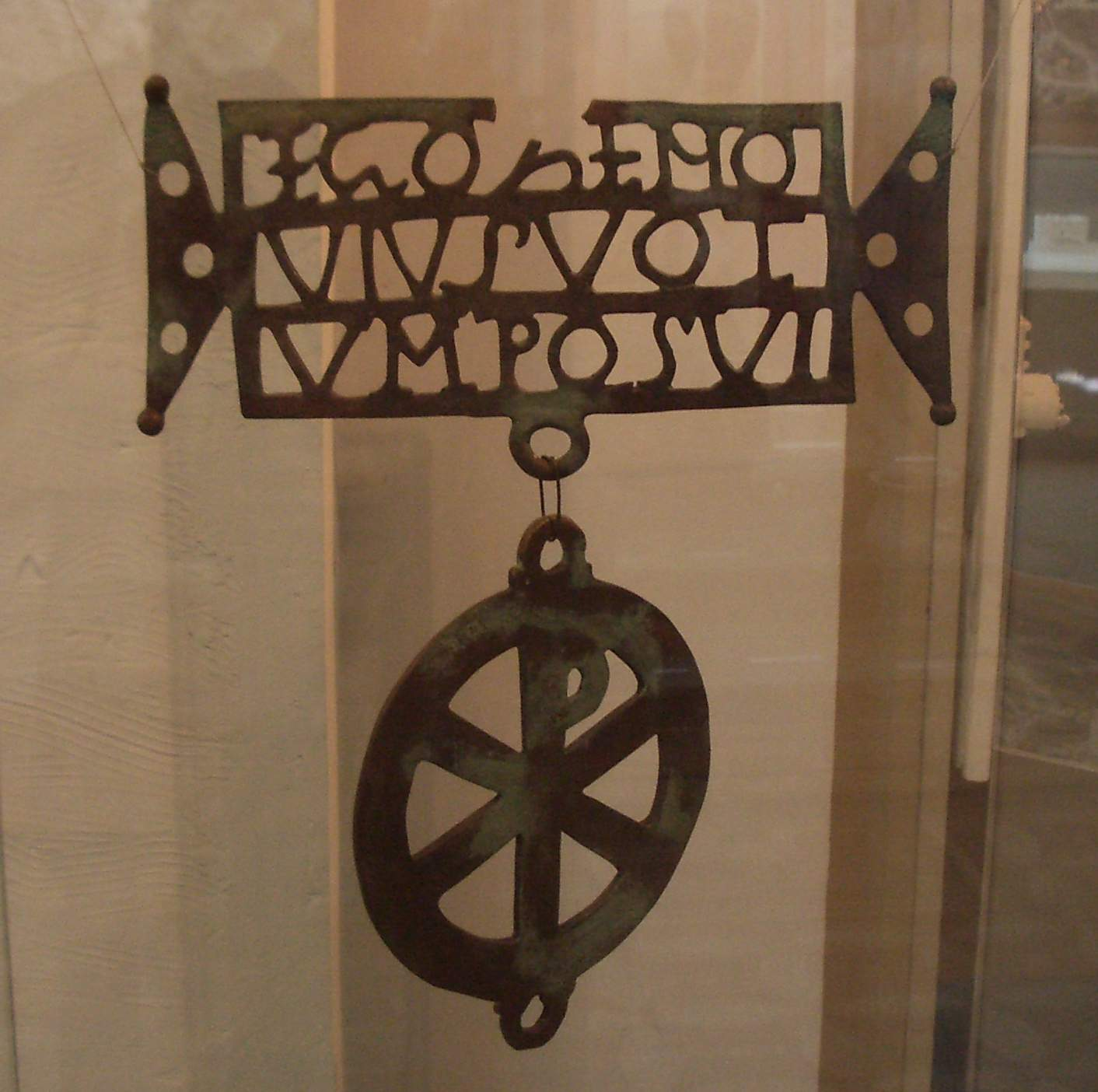 The Biertan Donarium - an early Christian votive object of early 4th century, unearthed at Biertan, near Sibiu, in Romania. The inscription in Latin reads "EGO (Z)ENOVIUS VOTUM POSVI", with the approximate translation: "I, Zenovius, offered this gift". Discovered in 1775 in the Chimdru forest, about 5 km south of Biertan and it was part of the collections of Baron Samuel von Brukenthal, nowadays being part of the exhibits of the Brukenthal National Museum, Romania.